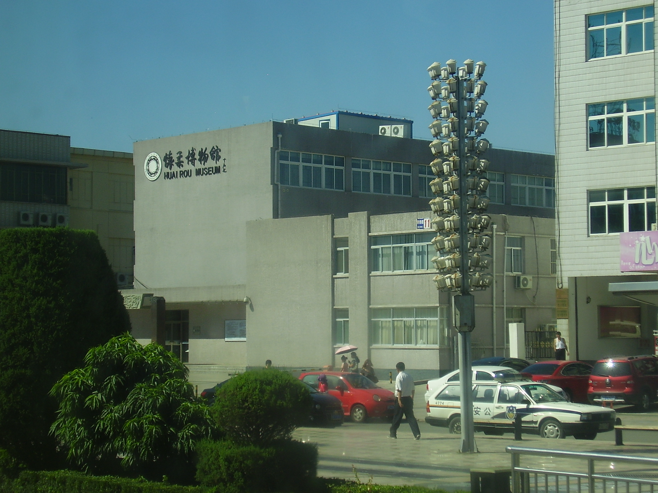 Huairou Museum (S: 怀柔博物馆, T: 懷柔博物館, P: Huáiróu Bówùguǎn)